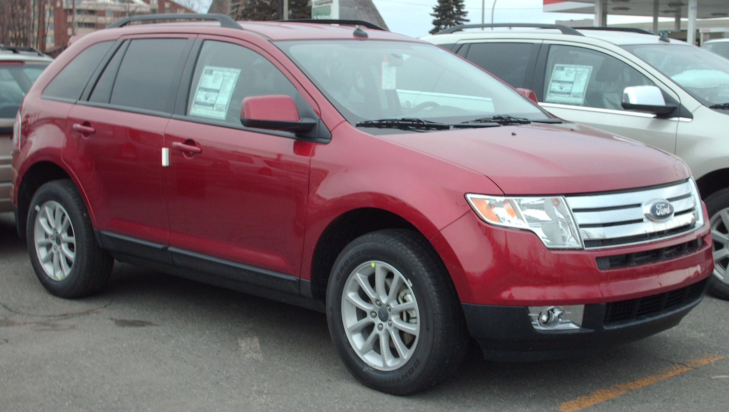 2007 Ford Edge photographed in Montreal, Quebec, Canada.